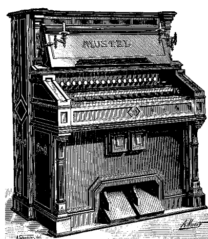 Orgue-Célesta Mustel, about 1890